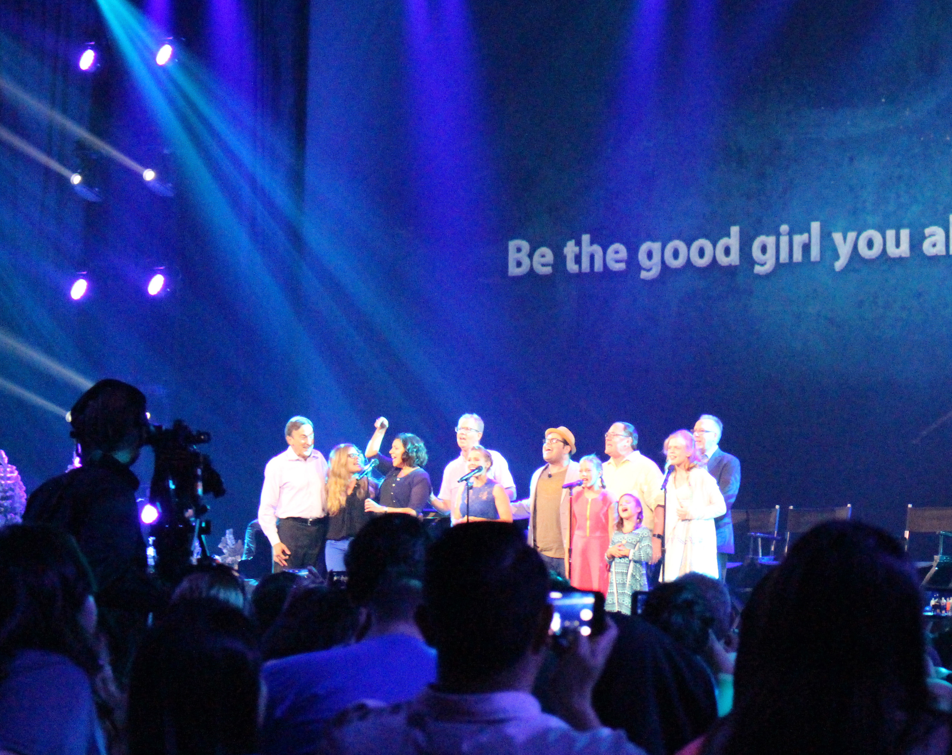 From left to right: Peter Del Vecho, Jennifer Lee, Kristen Anderson-Lopez, Chris Buck, Kristen Bell, Josh Gad, Katie Lopez, John Lasseter, Annie Lopez, Agatha Lee Monn, and Chris Montan leading the audience in singing "Let It Go" at the Frozen Fandemonium presentation at the D23 Expo in Anaheim, California on August 16, 2015. Also present onstage but not shown (blocked by cameraman on left): Robert Lopez. Photographed by user Coolcaesar on August 16, 2015.